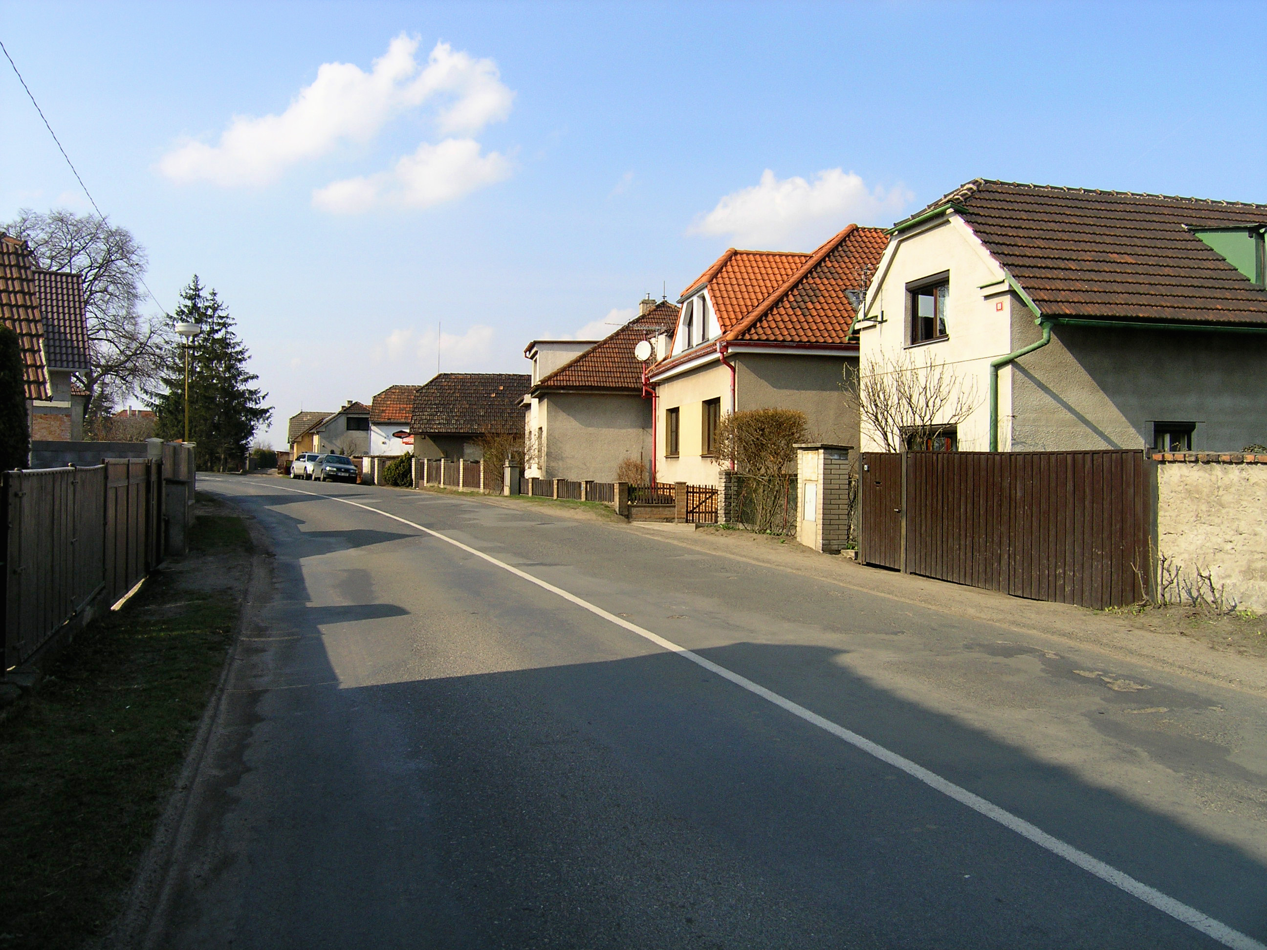 Main street in Ovčáry village, Czech Republic